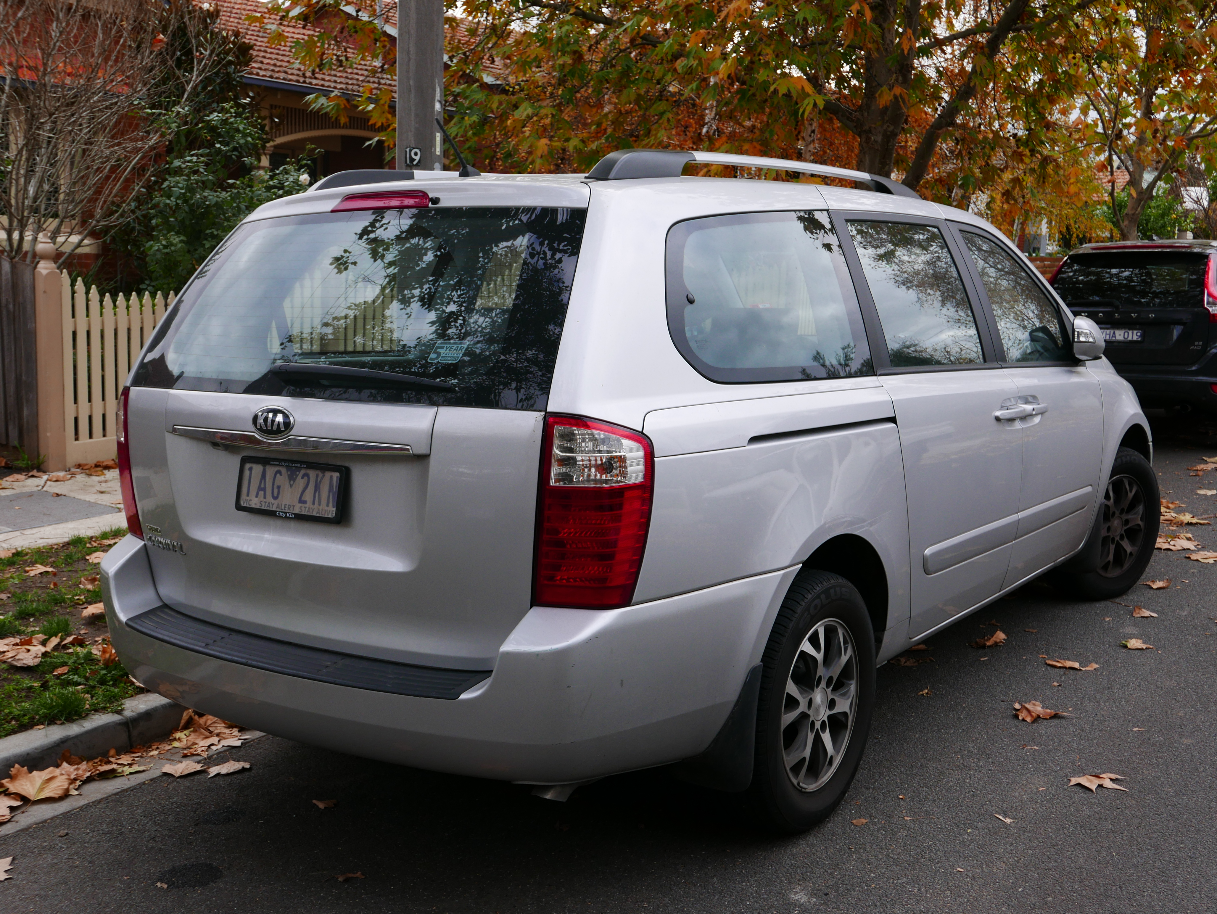 2013 Kia Grand Carnival (VQ MY14) SLi van. Photographed in Northcote, Victoria, Australia. Vehicle registration enquiry results Jurisdiction Victoria Registration 1AG2KN Chassis code KNAMH817ME6549275 Engine code G6DCDS062093 Compliance date 2013-07 Year of manufacture 2013